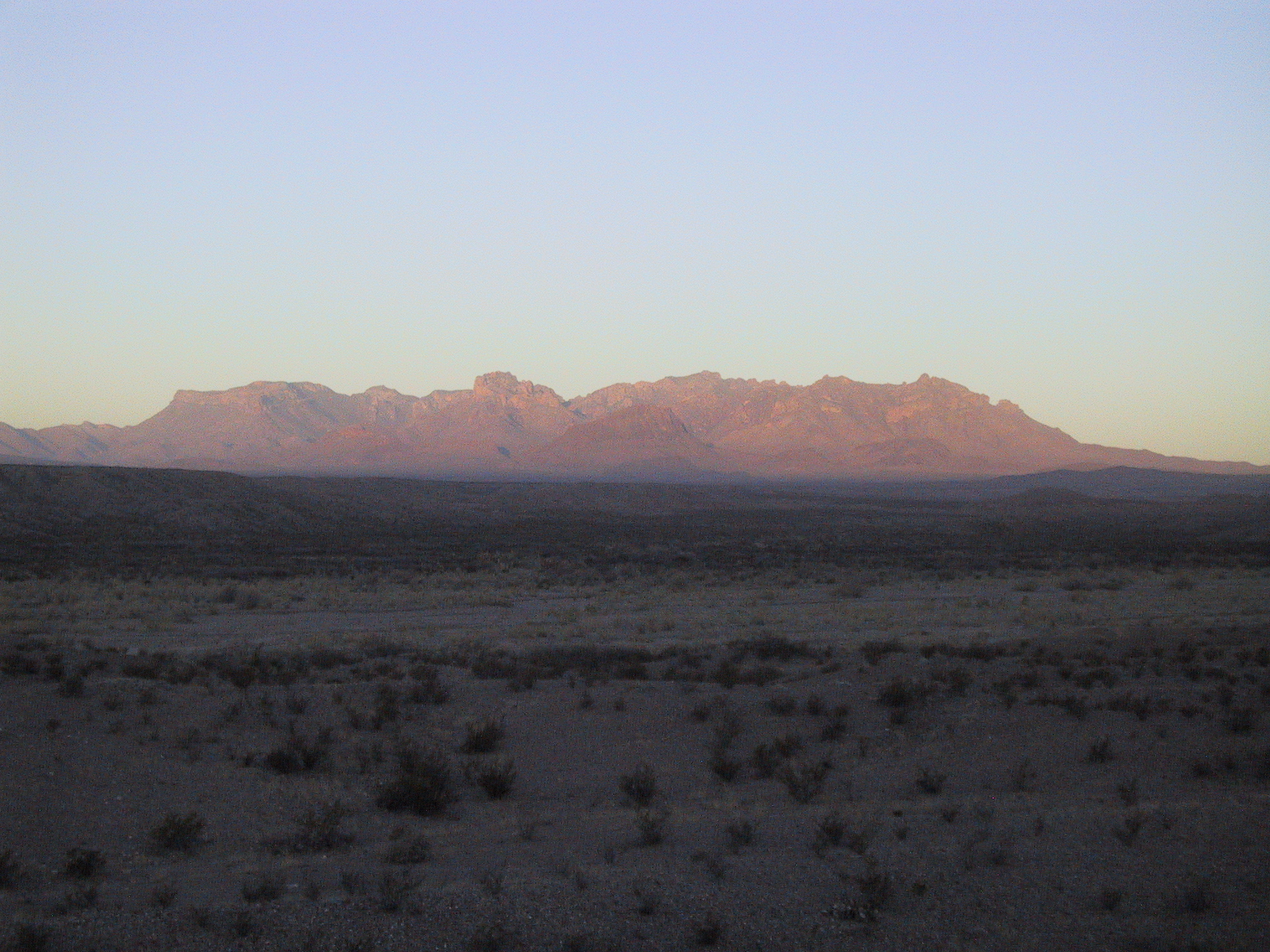 This is a photo taken February 22, 2002 in the desert east of the Chisos Mountains showing sunrise over the range. The northern (right) and southern (left) ends of the mountain range is evident in this photo. The Chisos mountain range is located entirely within the Big Bend National Park.